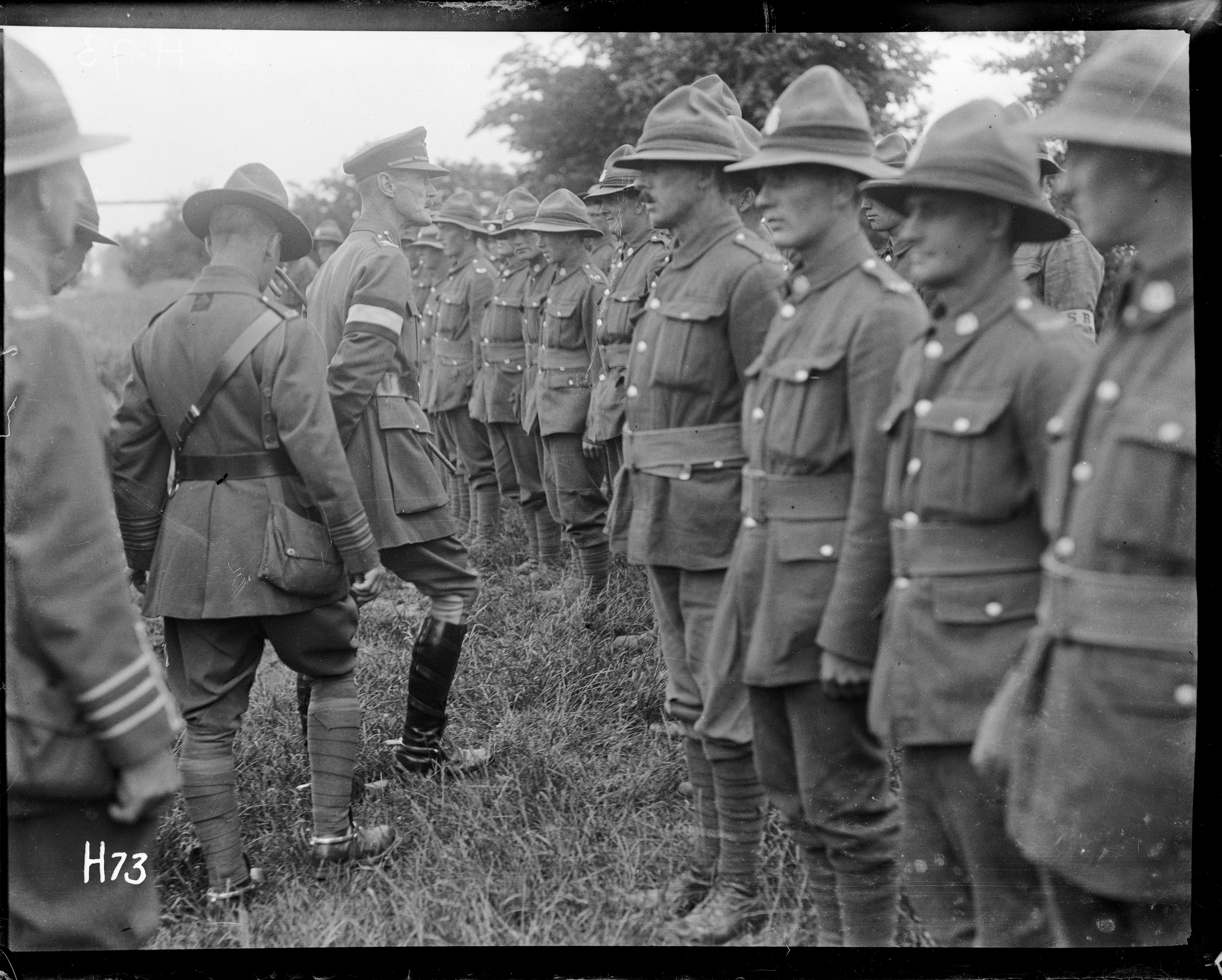 General Alexander John Godley reviewing troops in Belgium after the Battle of Messines. Photograph taken 21 June 1917 by Henry Armytage Sanders. Inscriptions: Inscribed - Photographer's title on negative -bottom left: H73. Quantity: 1 b&w original negative(s). Physical Description: Dry plate glass negative 4 x 5 inches General Alexander John Godley reviewing troops in Belgium after the Battle of Messines. Royal New Zealand Returned and Services' Association :New Zealand official negatives, World War 1914-1918. Ref: 1/2-012784-G. Alexander Turnbull Library, Wellington, New Zealand.